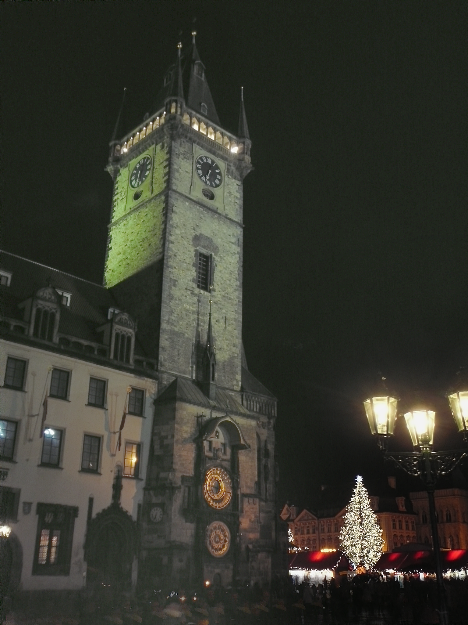 Prague Astronomical Clock. Registrated from several pictures without tripod and processed with GIMP: gamma changed in parts of the picture, unsharp masked.